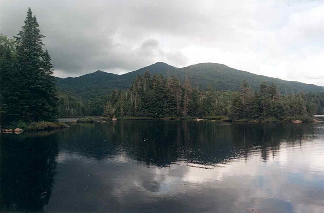 MacNaughton Mt. (centre), Adirondacks, NY, seen from near dam at Duck Hole